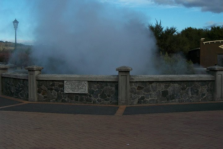 Date approximate within the month. Geothermal activity bubbles up near Rotorua, New Zealand. Hot springs were a tourist attraction. The region has a sulphurous smell. This geothermal pool is too hot to jump in -- 212 degrees Fahrenheit/100 degrees Celsius. This picture is public domain from An American's perspective on New Zealand (see notice at top of article). Questions? Ask here.